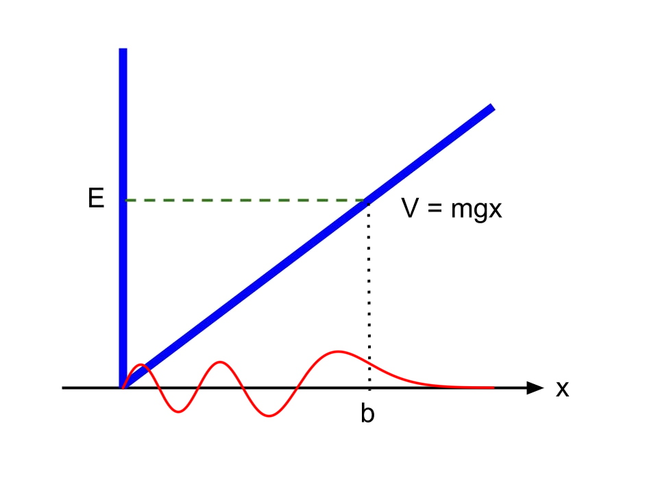 Illustration of wave function in quantum mechanics confined by linear potential